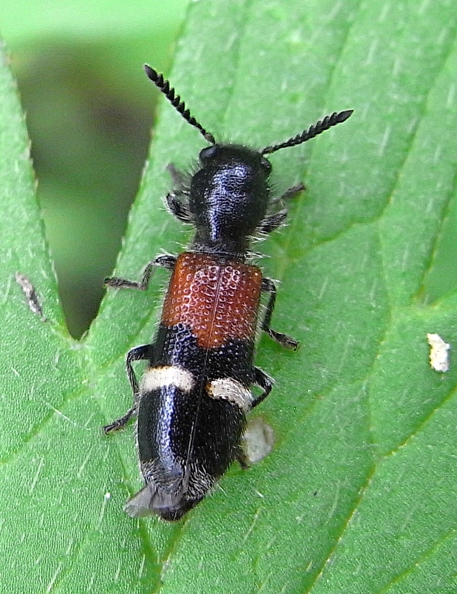 Tilloidea unifasciata from Hungary in Matra-mountains at 2010-06-04 Ricoh R8